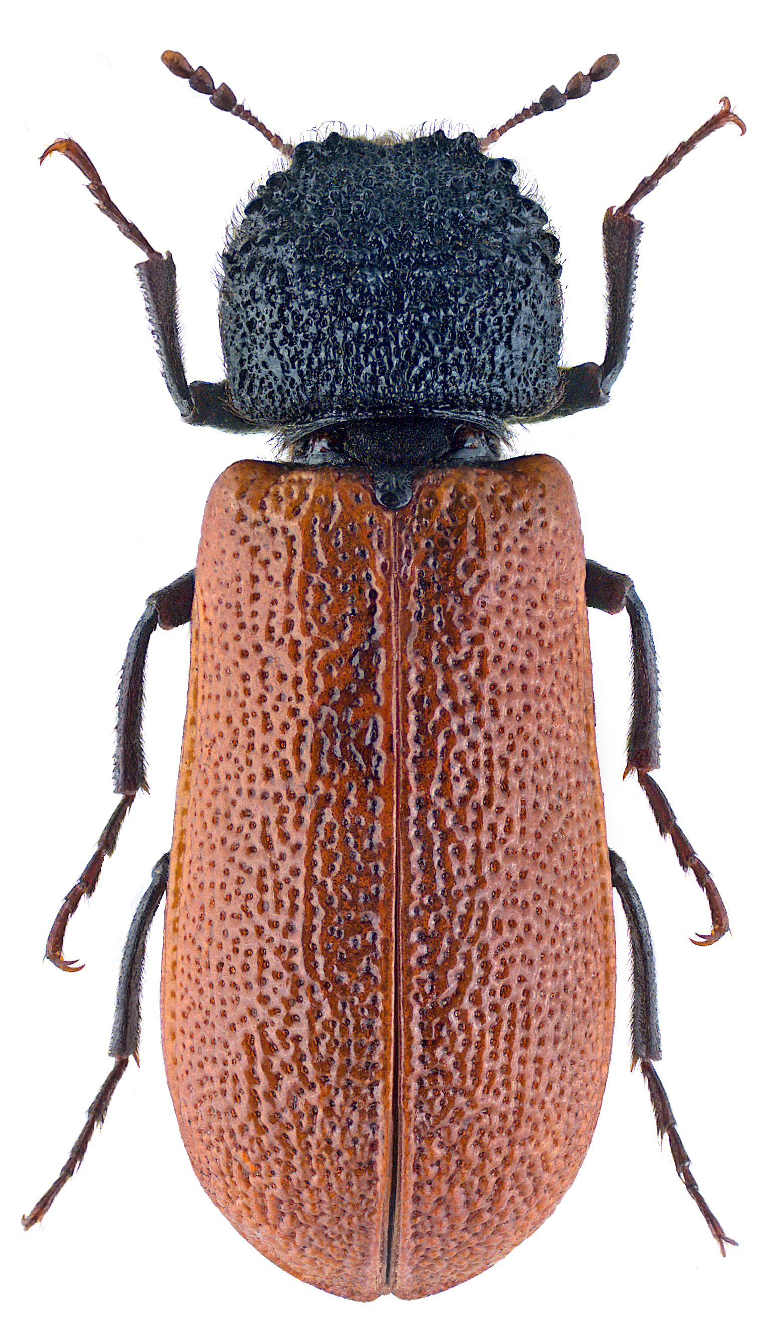 Family: Bostrychidae (Bostrichidae) (Lyctidae) Size: 12,7 mm (6,0 to 15,0 mm) Distribution: Palaearctic Ecology: in dry hardwood Location: Germany, Bavaria, Upper Franconia, Kasendorf, Friesenmühle, at Oak trunk leg. det. U.Schmidt, 29.V.1976 Photo: U.Schmidt, 2016